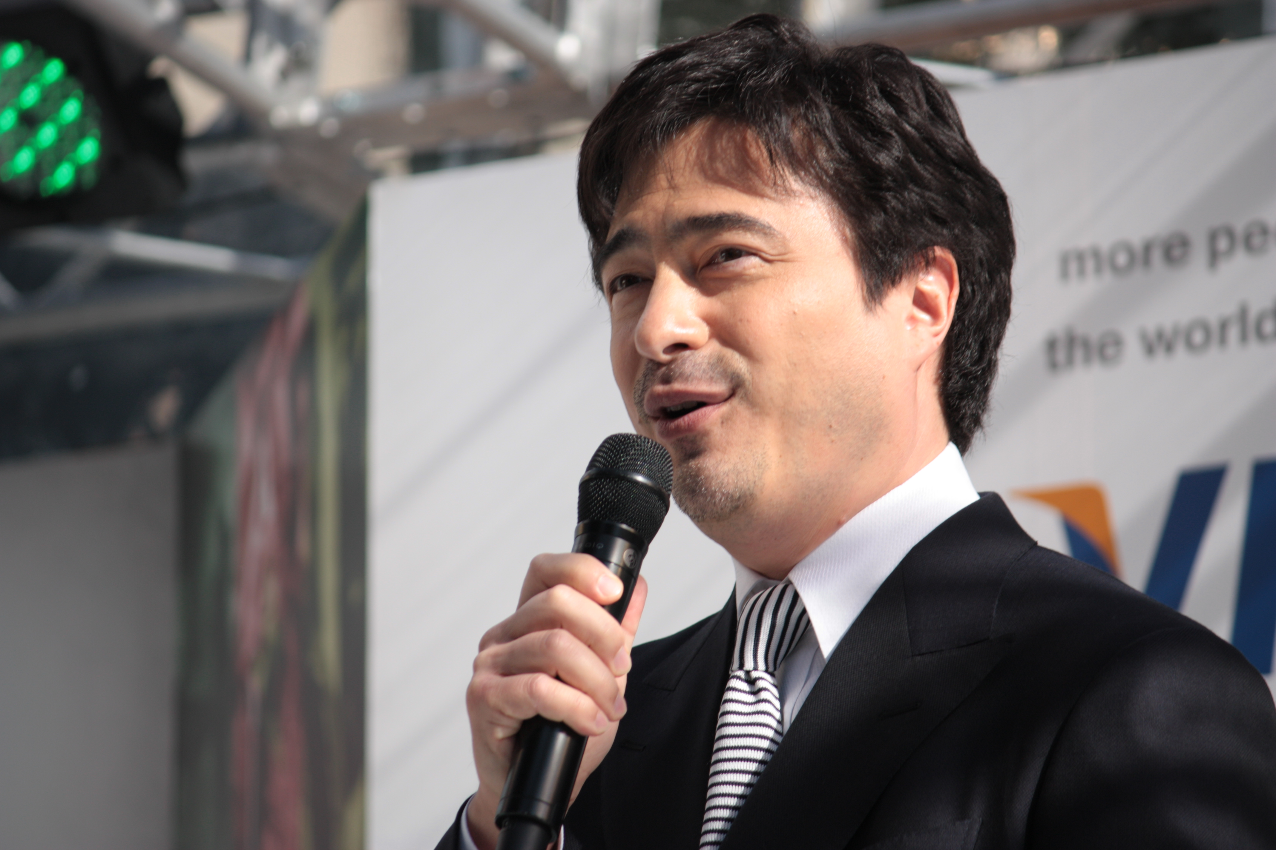 Jon Kabira hosting a event during the 2012 World Cup.